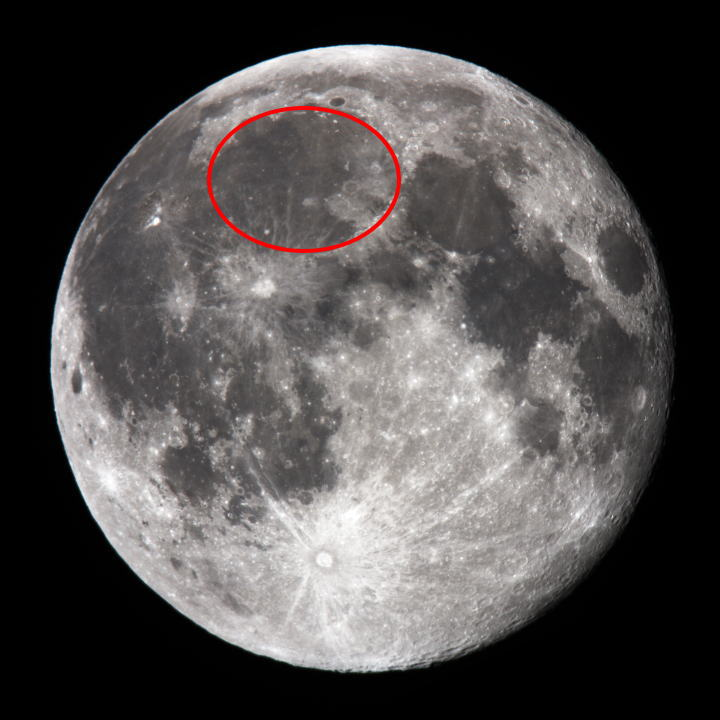 The Location of Mare Imbrium, One of the Lunar Geographical Features.